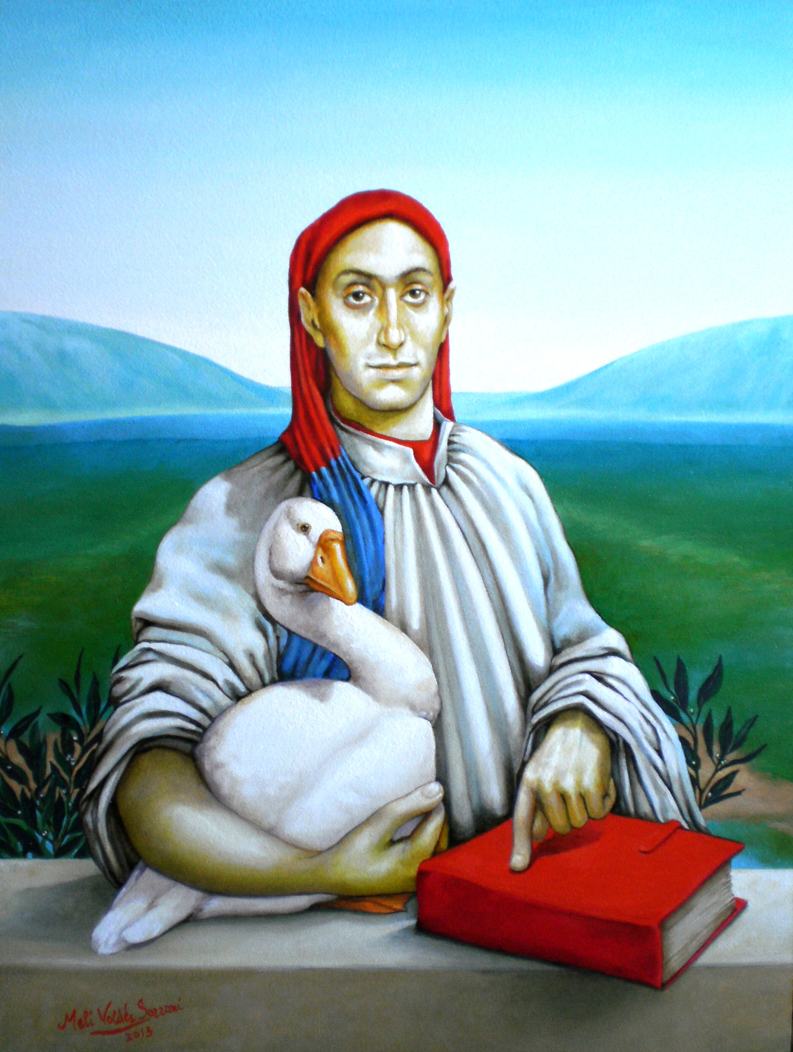 IV Day, "Apologo delle Papere", is the fifth painting of the series based on the Decameron by Meli Valdés Sozzani.